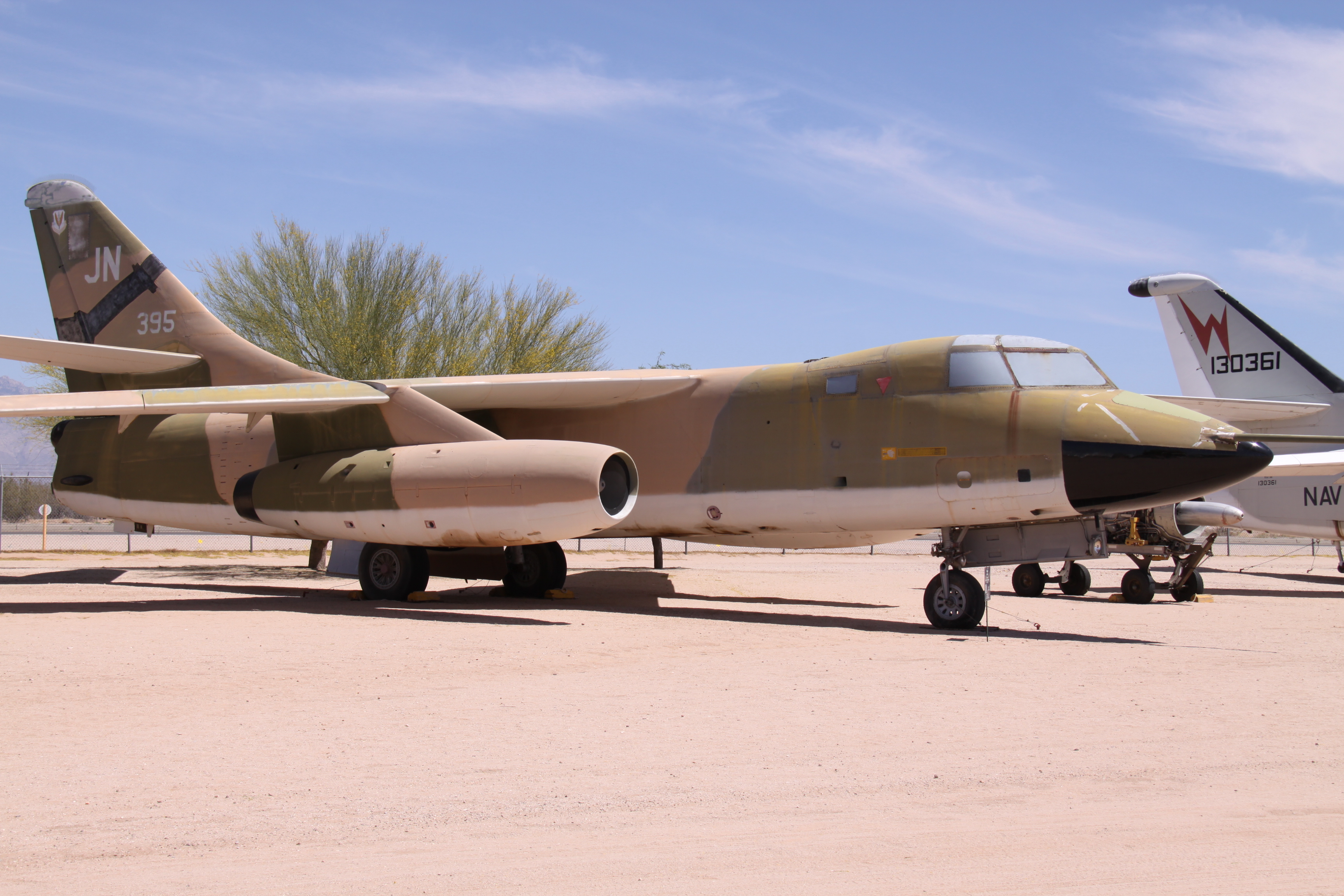 At Pima Air & Space Museum